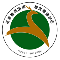 HSMNNR Badge